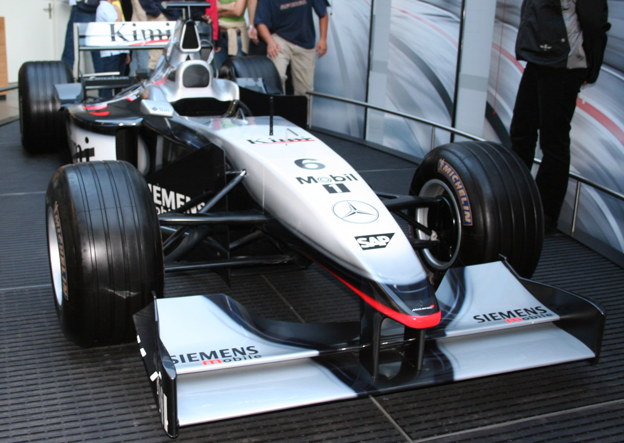 McLaren Mercedes racing car on IAA 2005 Photo taken by Ygrek, 17th September 2005.